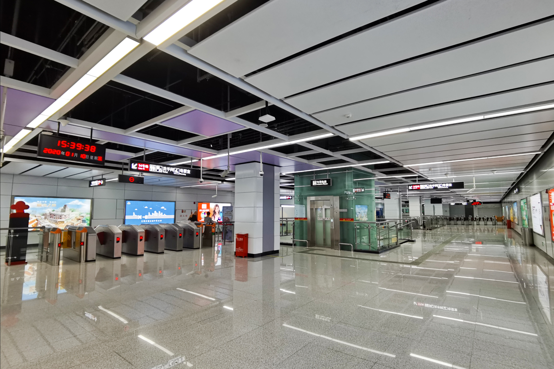 广州地铁旺村站